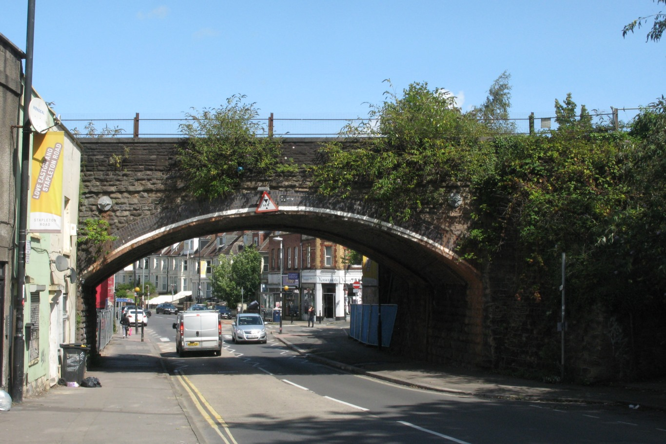 The stone arch that carries the South Wales railway line across Stapleton Road in Easton, Bristol. Stapleton Road station is just on the right.